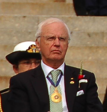 Cropped version of ANZAC Day Ceremony to focus on Alex Chernov, Governor of Victoria